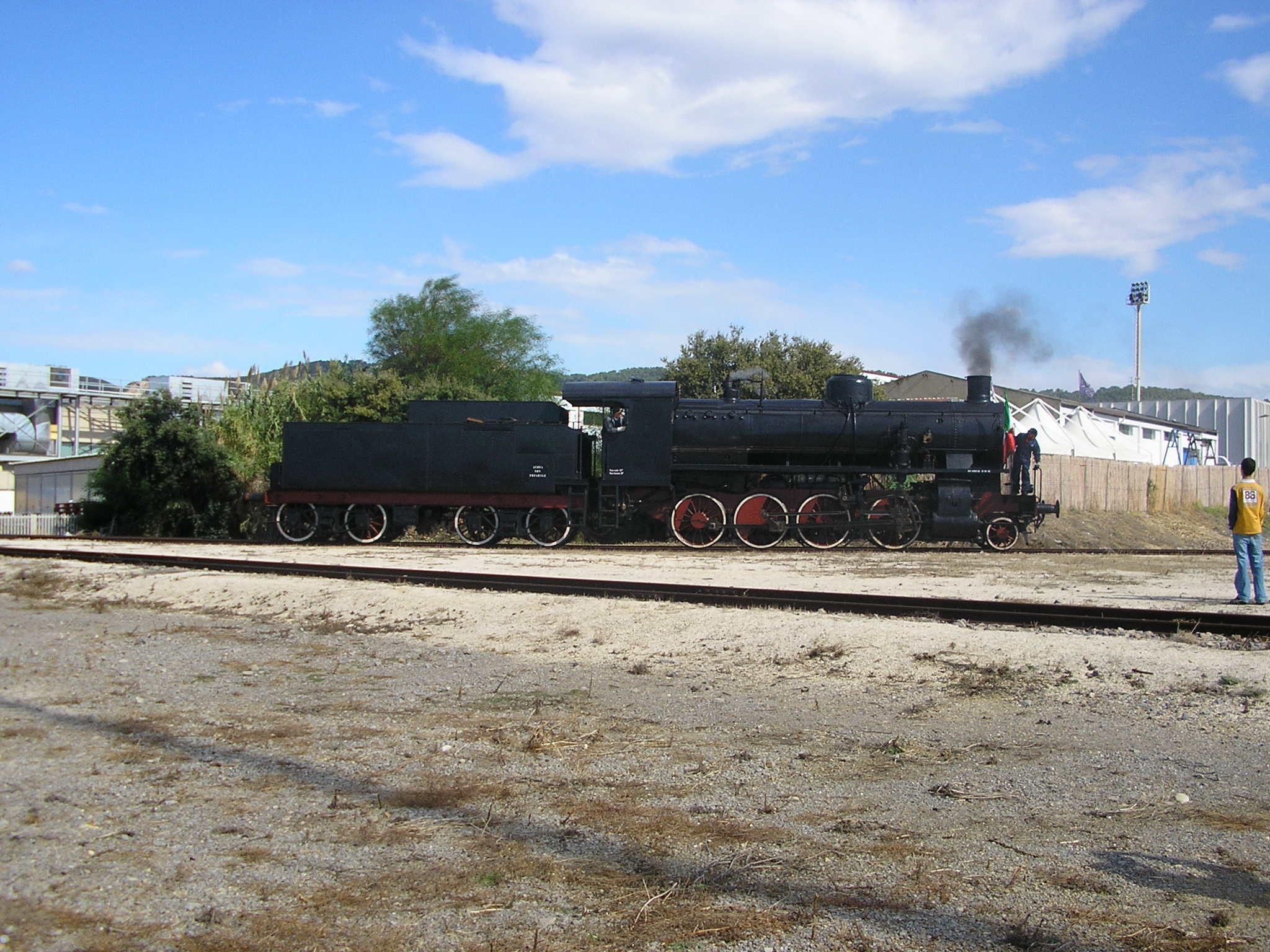 Steam locomotive of FS group 740 number 423 in the Carbonia Stato station, Sardinia, Italy